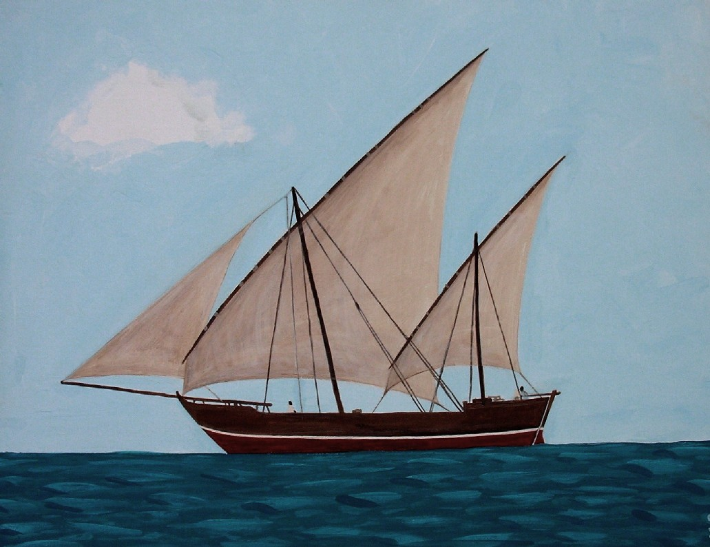 Painting of a Maldivian boom or boum, known as 'dangi' in the Maldives. This ship had been originally built in Beypore, Kerala, India. Acrylic on canvas